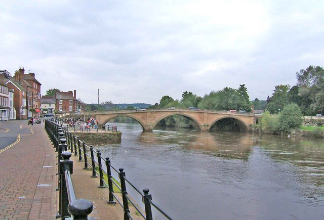 Severnside South and Bewdley Bridge Bewdley Bridge was built by Thomas Telford in 1798 to replace a 15th century medieval bridge which was destroyed by floods. Floods remain a major problem for Bewdley today.